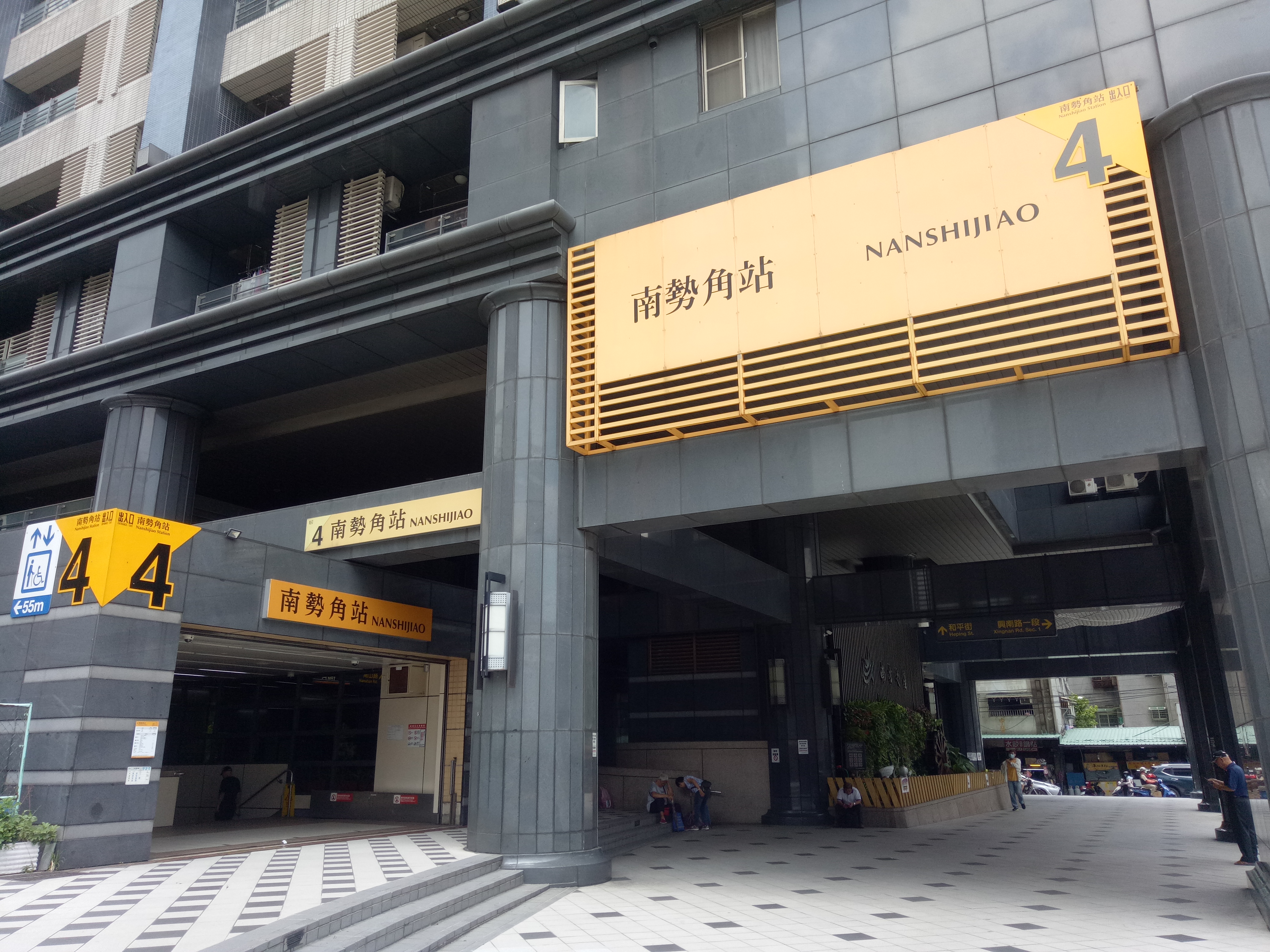 Taipei MRT Nanshihjiao Station Exit 4.